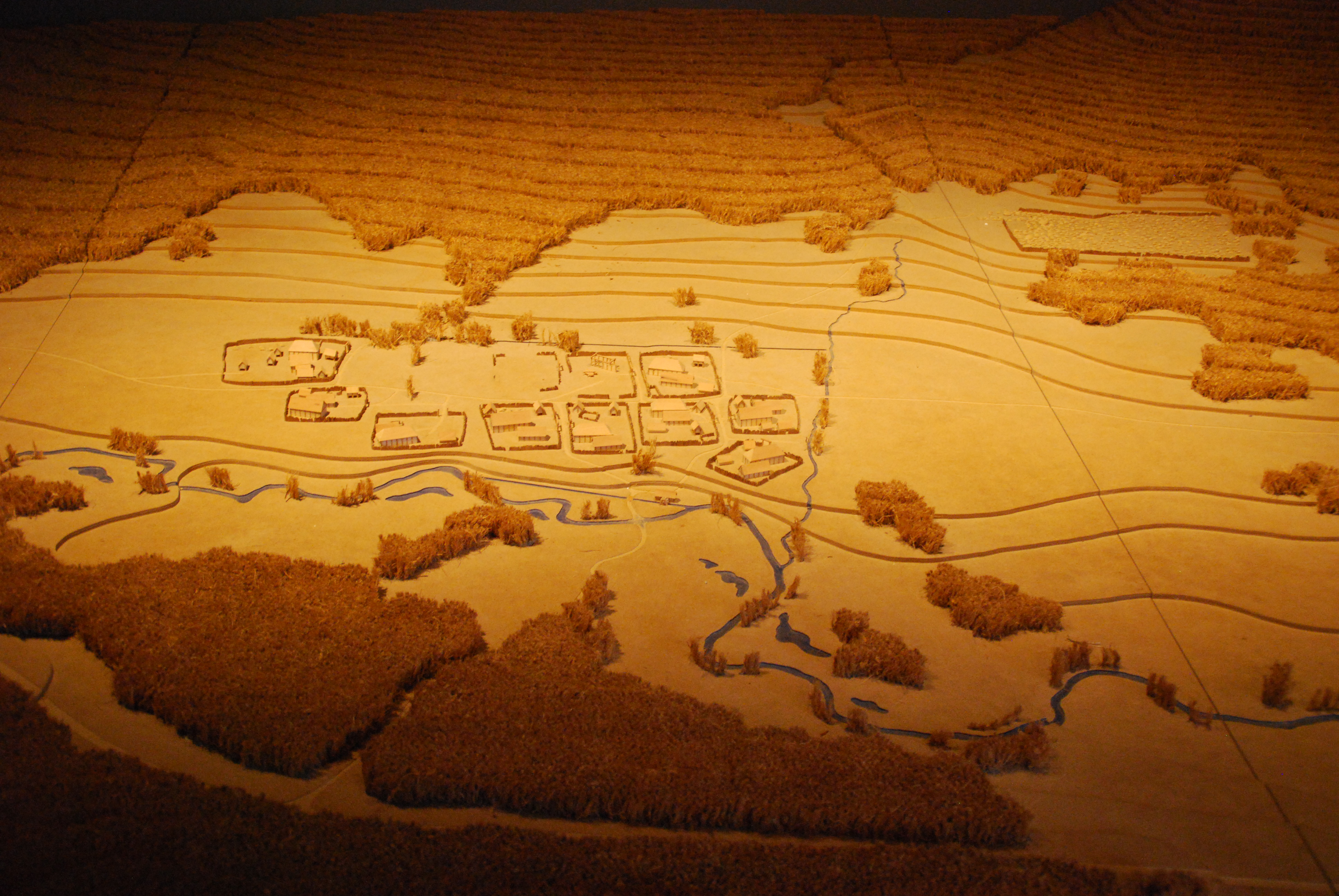 Uploaded Raw material, everybody can work on Names, Categories, Descriptions and so on.. - pictures of descriptions should be deleted after usage.